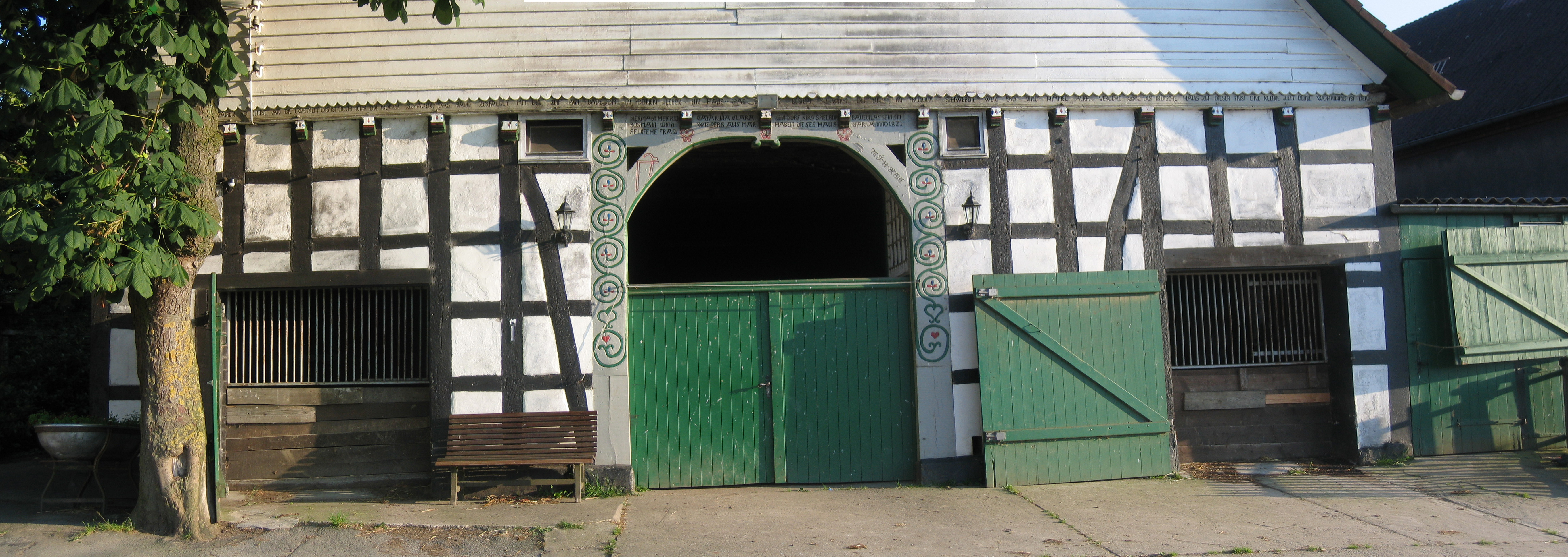 Timber framed farm building in Rödinghausen, District of Herford, North Rhine-Westphalia, Germany.